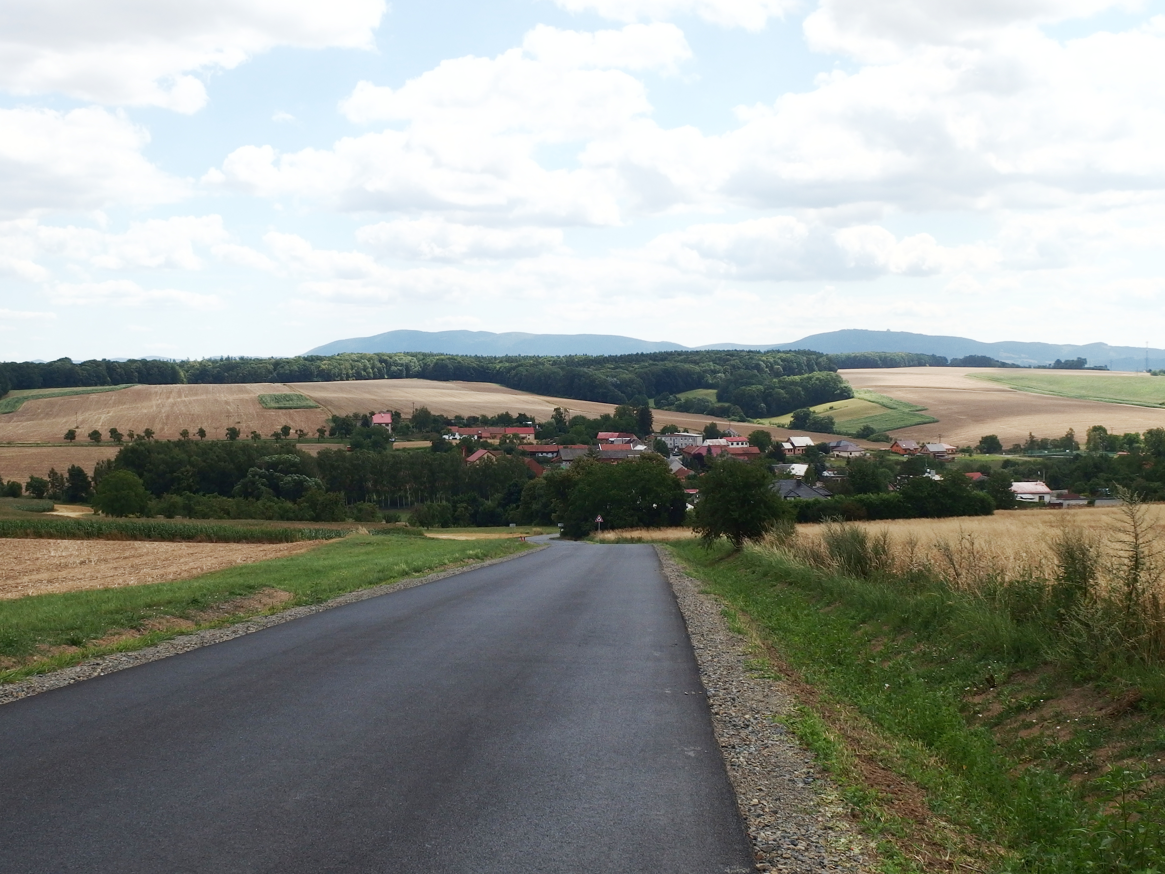 Hradčany, Přerov District, Czech Republic.